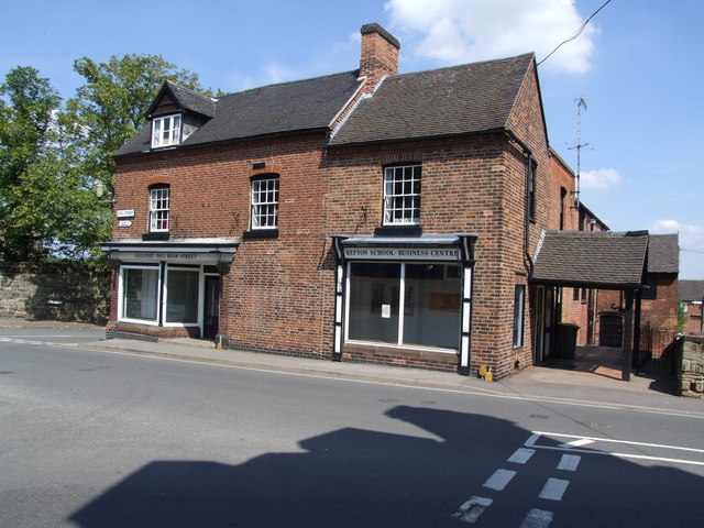 Repton School Business Centre and Gallery. Another view of the village centre